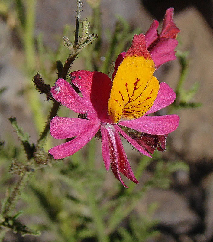 From the southern Andes Mountains, locally called Pajarito Cordillerano In context at